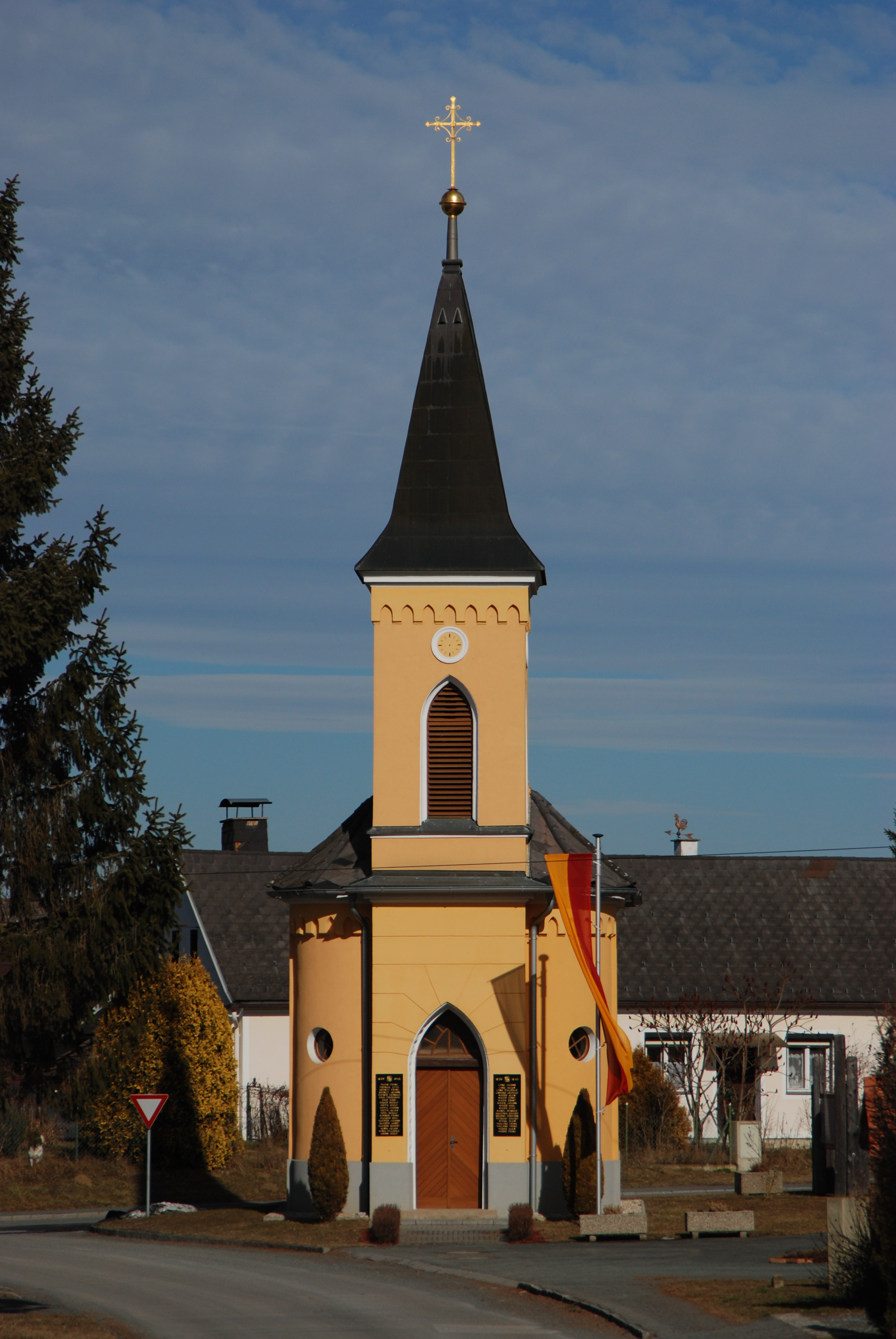 Ortskapelle Wallendorf